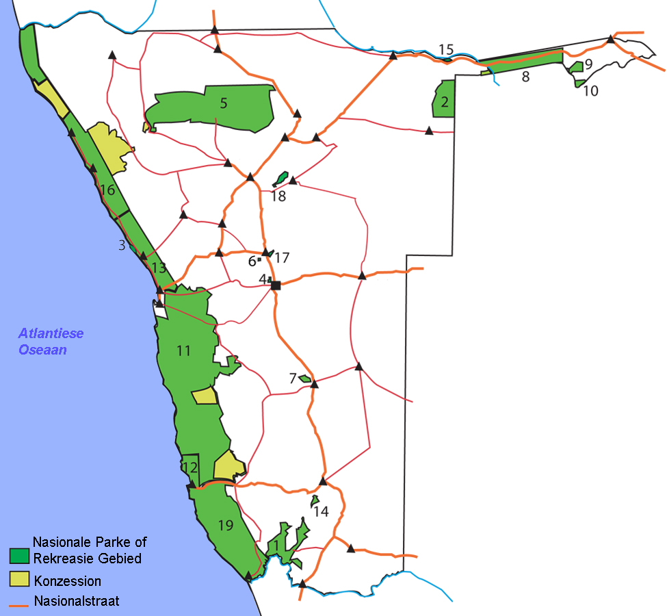 map of National Parks and Recreational Areas in Namibia (Afrikaans) 01. Ai Ais Hot Springs 4321.97 sqm 02. Khaudom National Park 3657.91 sqm 03. Cape Cross Seal Reserve 22.88 sqm 04. Daan Viljoen 39.09 sqm 05. Etosha National Park 22151.40 sqm 06. Gross Barmen Hot Springs 0.93 sqm 07. Hardap Recreation Resort 239.97 sqm 08. Bwabwata National Park 6333.07 sqm 09. Mamili National Park 343.17 sqm 10. Mudumu National Park 726.25 sqm 11. Namib Naukluft National Park 50951.74 sqm 12. National Diamond Coast Recreation Area 58.36 sqm 13. National West Coast Recreation Area 7445.95 sqm 14. Naute Recreation Resort 220.30 sqm 15. Popa Falls 0.15 sqm 16. Skeleton Coast Park 17163.70 sqm 17. Von Bach Recreation Resort 41.24 sqm 18. Waterberg Plateau Park 397.95 sqm 19. Sperrgebiet National Park 21751.86 sqm